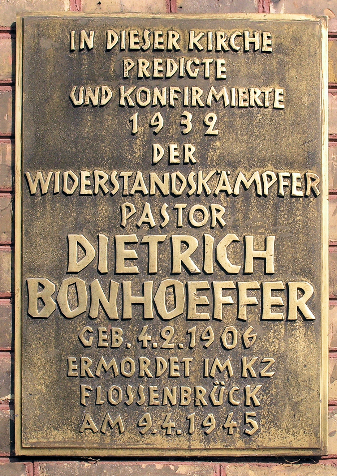 Memorial plaque, Dietrich Bonhoeffer, Zionskirchplatz , Berlin-Mitte, Germany Koordinate:52°32′4″N 13°24′14″E / 52.53444°N 13.40389°E